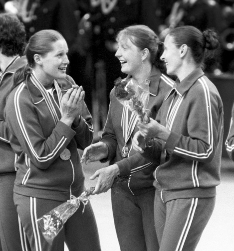 Left-right: Tetyana Kocherhina, Valentyna Lutayeva, Zinaida Turchyna at the 1980 Olympics